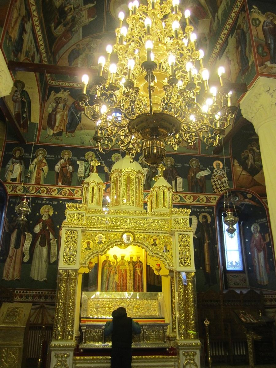 Constantin Brancoveanu tomb at Saint George New Church, BucharestRomână: Mormantul lui Constantin Brancoveanu - Biserica Sf. Gheorghe Nou, Bucuresti